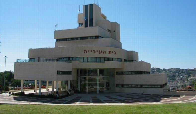 The City Hall in Nazareth Illit, Israel.